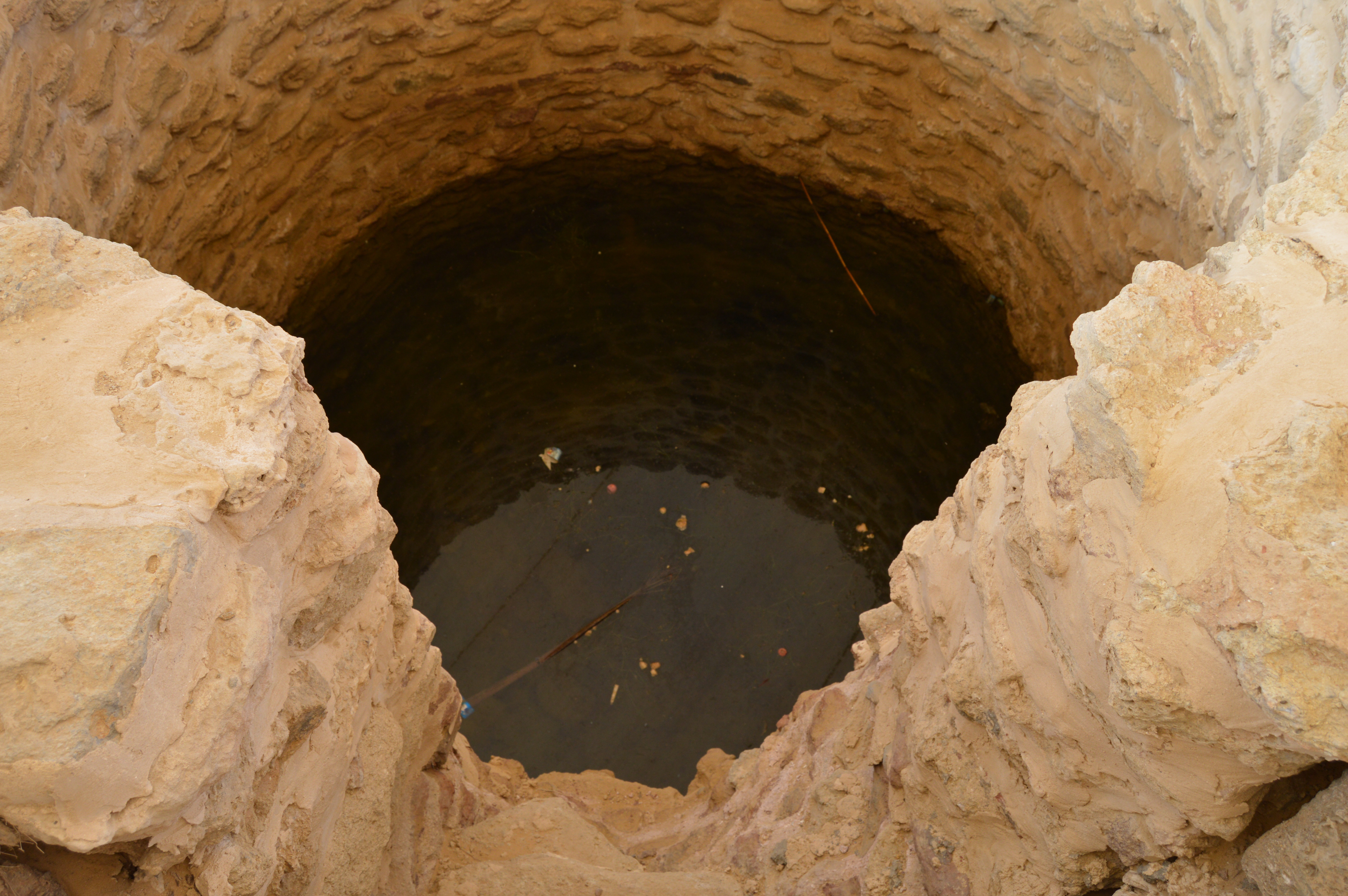 Marah (Hebrew: מָרָה meaning 'bitter') is one of the locations which the Torah identifies as having been travelled through by the Israelites, during the Exodus.[1][2] The liberated Israelites set out on their journey in the desert, somewhere in the Sinai Peninsula. It becomes clear that they are not spiritually free. Reaching Marah, the place of a well of bitter water, bitterness and murmuring, Israel receives a first set of divine ordinances and the foundation of the Shabbat. The shortage of water there is followed by a shortness of food. Moses throws a log into the bitter water, making it sweet.